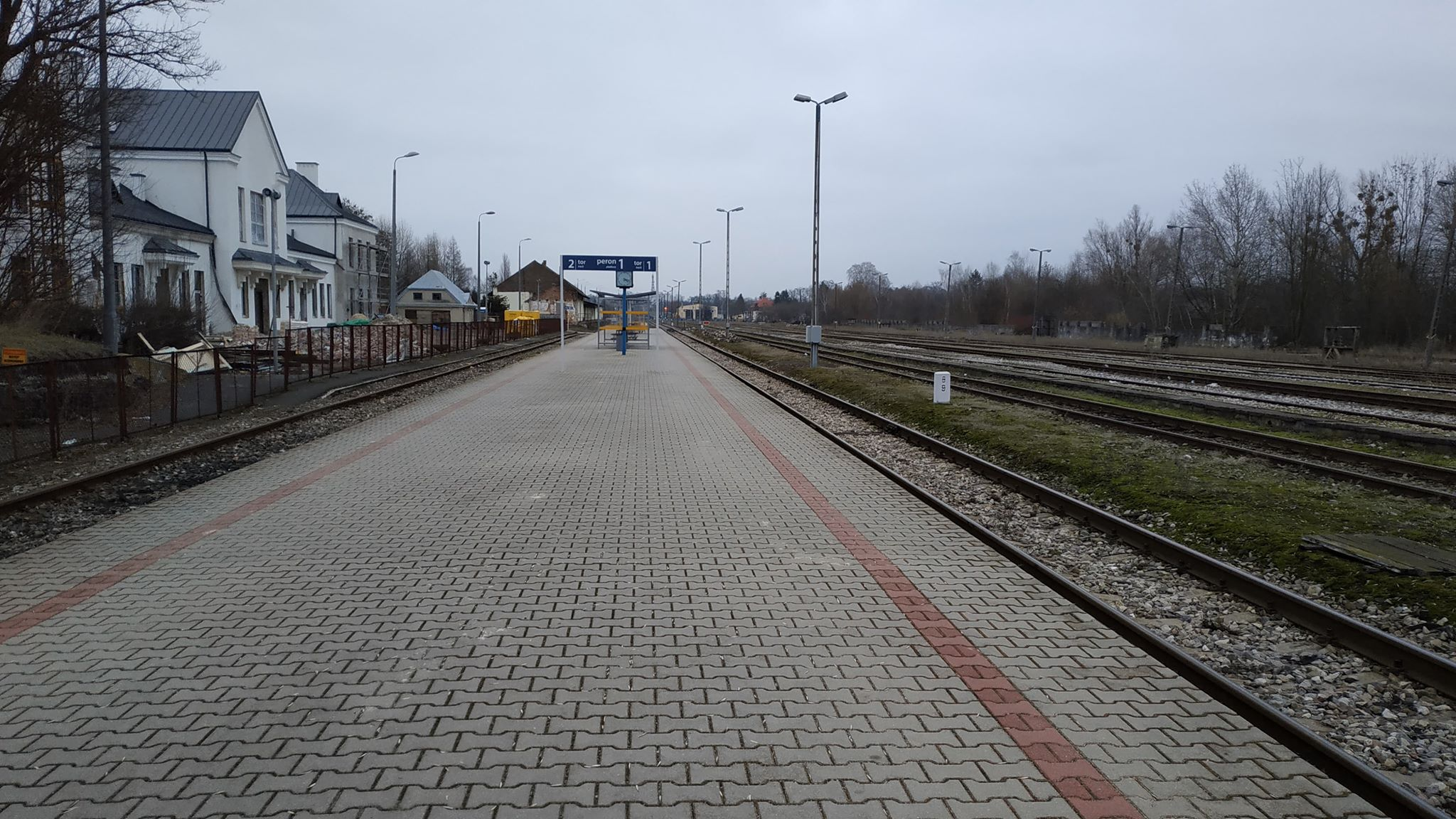 PKP Zamość (railway station)